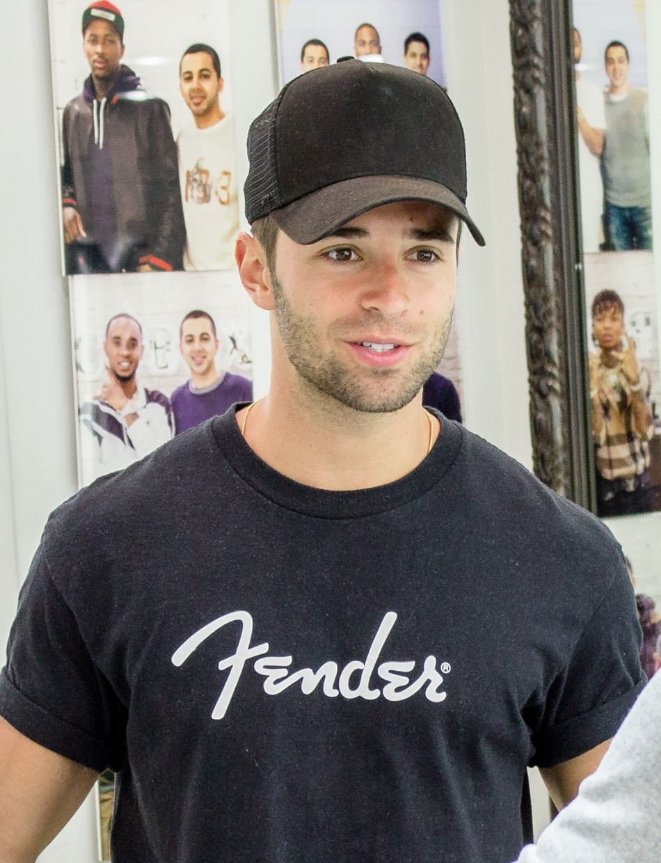 Jake Miller at Icebox 2019